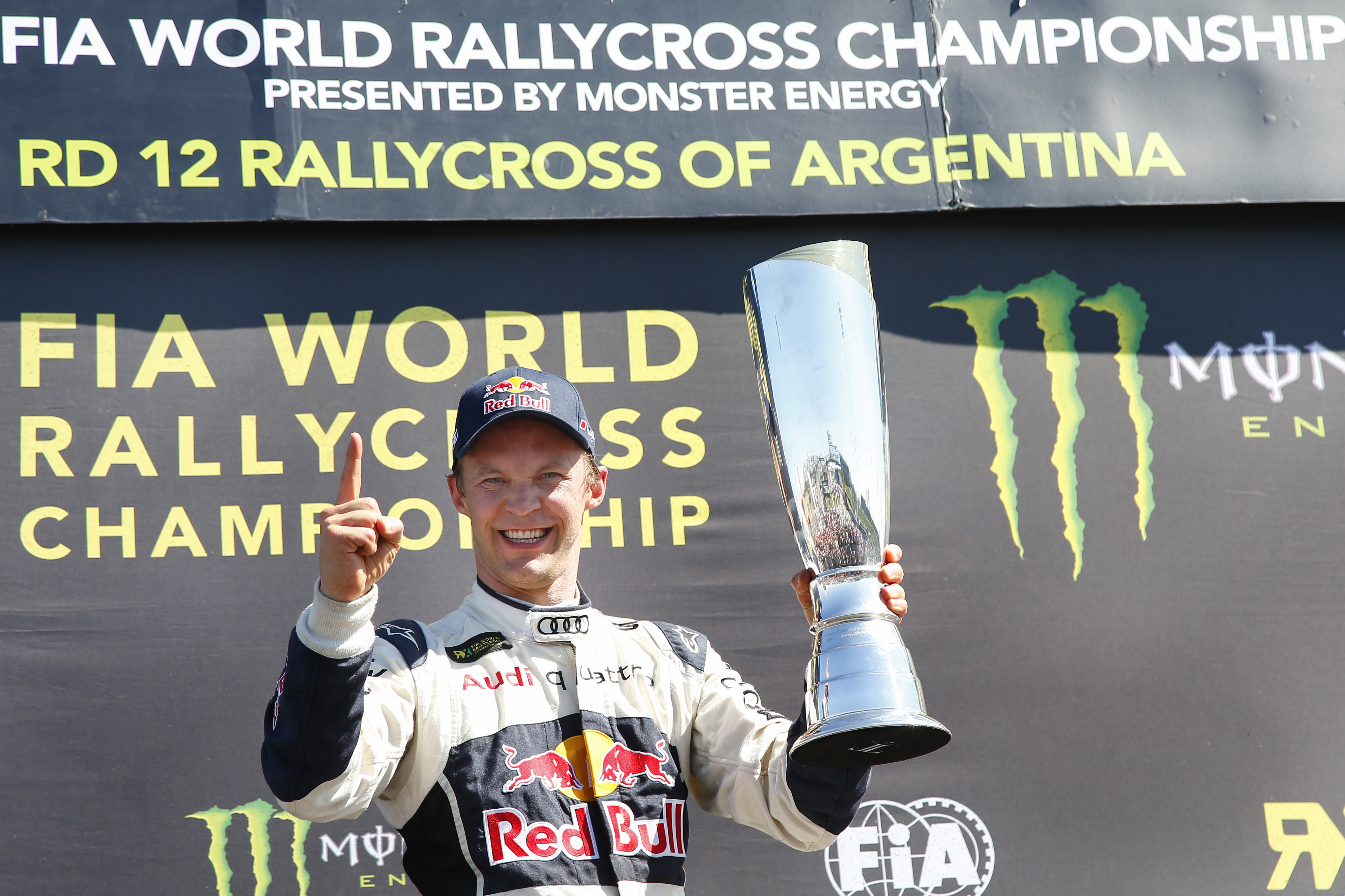 2016 FIA World RX Rallycross Championship / Round 12 / Rosario, Argentina / November 25 - 28, 2016 // Worldwide Copyright:Tony Welam/EKS/McKlein